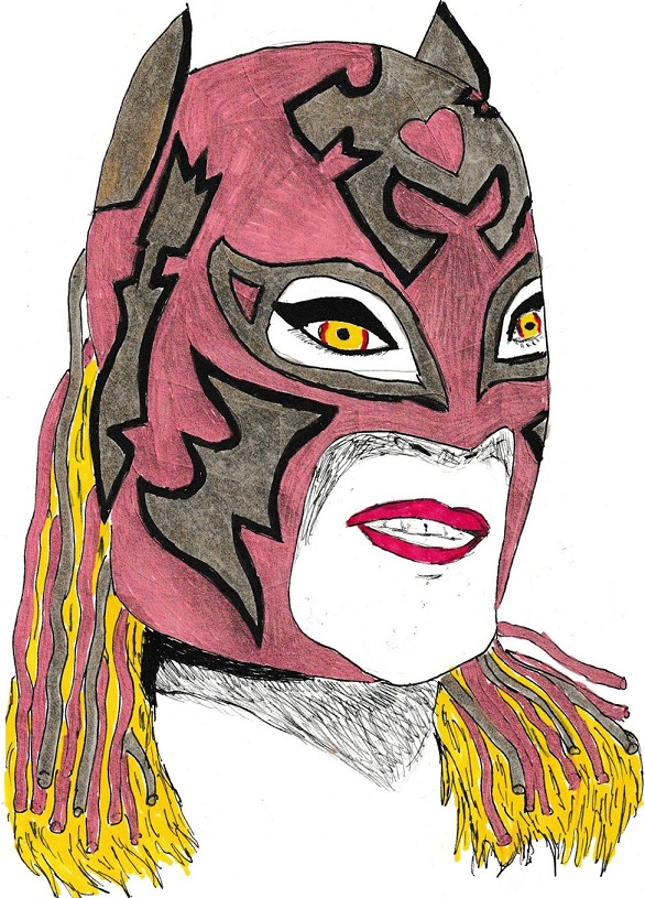 An artist rendition of the Mexican masked wrestler La Metálica